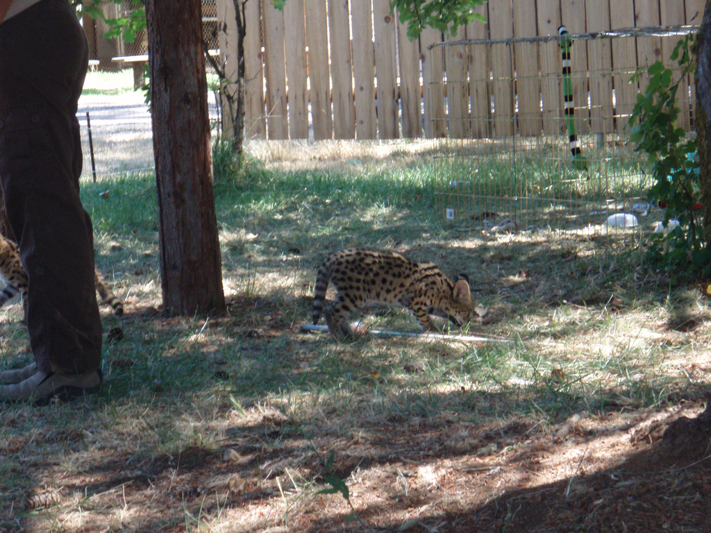 In Cave Junction, OR